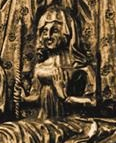 Jelena Šubić of Bosnia